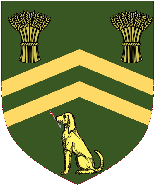 Shield of arms of The Lord Ingrow